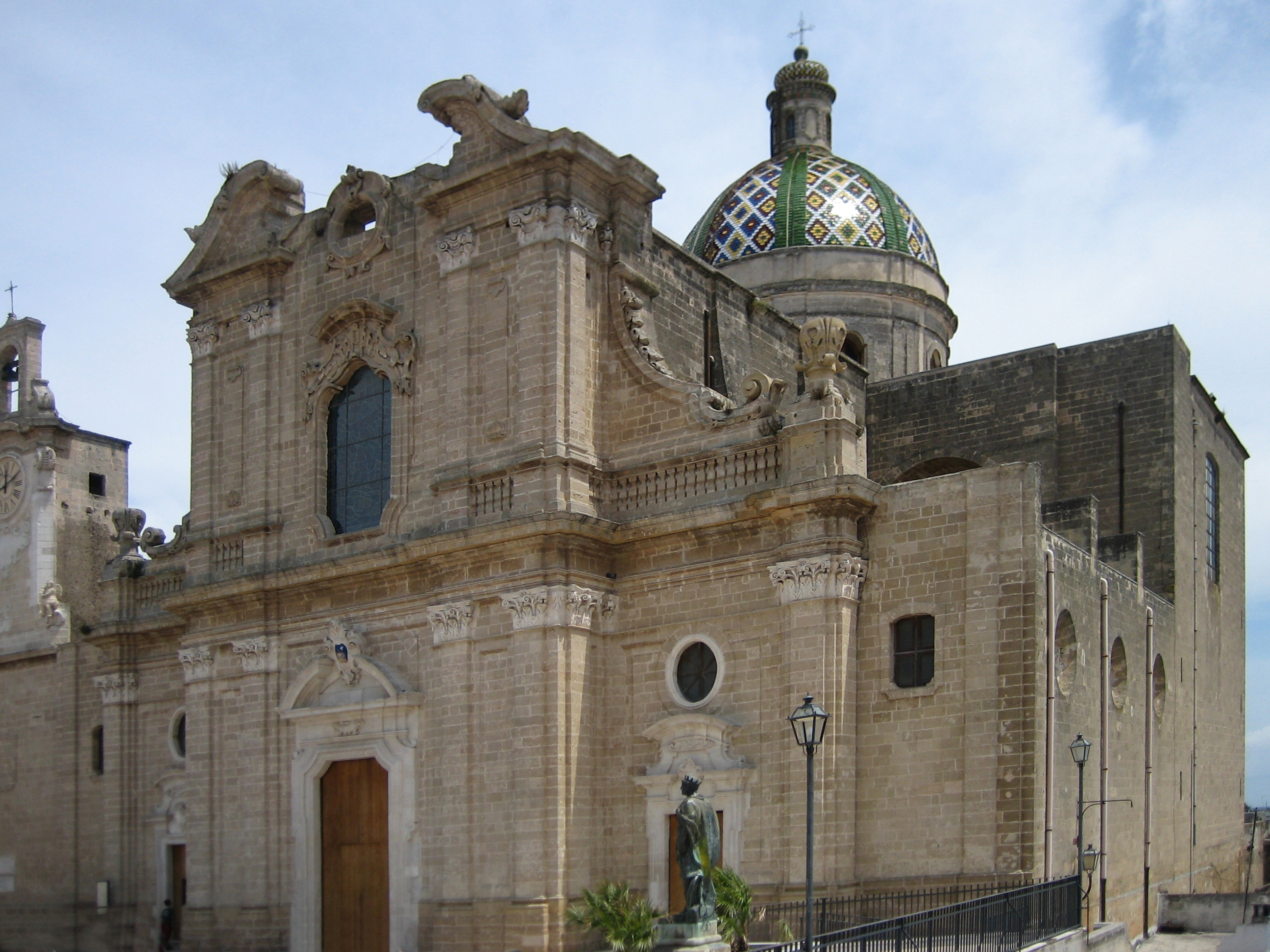 The Cathedral of Oria in Salento, Puglia, Italy.